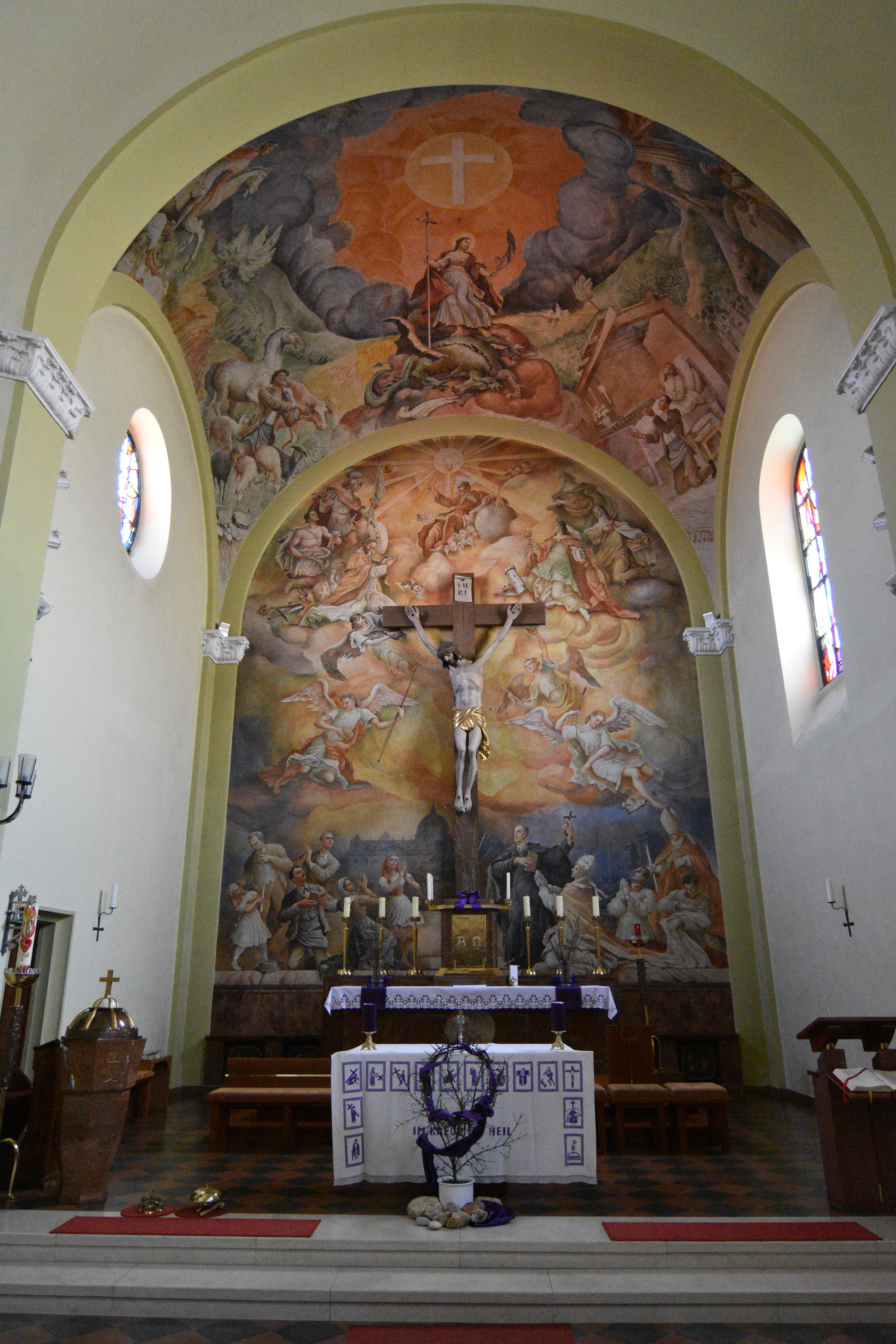 Church hl. Margaretha in Horitschon - Interior